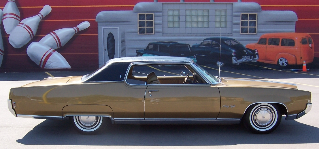 1969 Oldsmobile Ninety-Eight